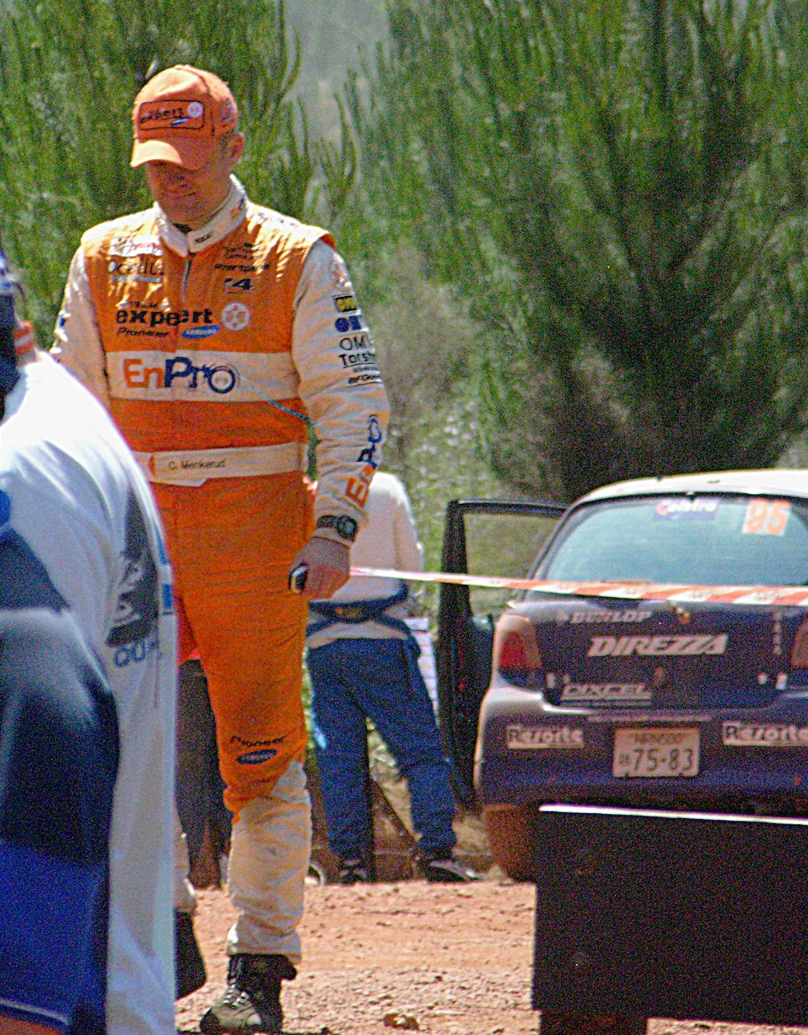 A disappointed Cato Menkerud, co-driver of Henning Solberg, returns to the Park Road media point after Solberg spun his OMV Peugeot 307 off the road on special stage six, Murray North II, on the second day of the 2006 Telstra Rally Australia.